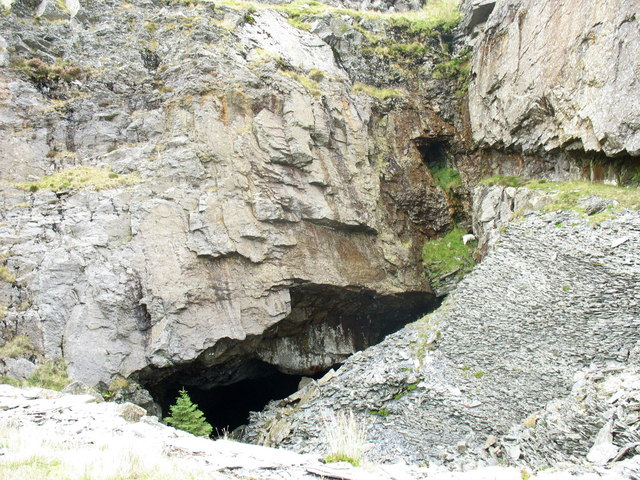 A former adit to the North Pit of Cwt y Bugail A tramway linking the North and South Pits followed a narrow carved shelf above the deep hole in the South Pit. This was reinforced by a packwall on the eastern side of the hole. Over time a section near the mouth of the adit has collapsed or possibly been deliberately breached for safety reasons so that it is not possible to walk through to the North Pit at this point.